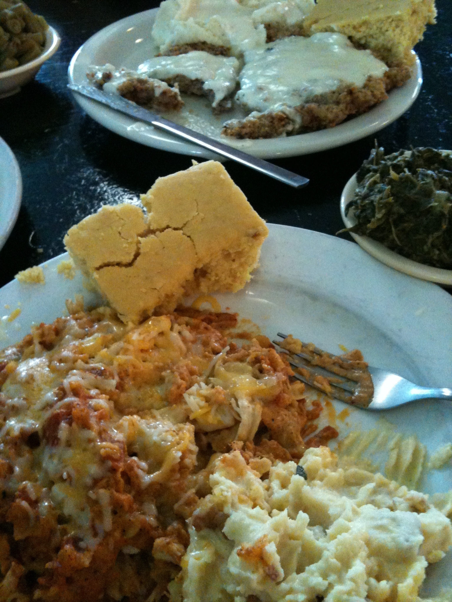 King Ranch Chicken is a popular Tex-Mex casserole having a sauce made of Ro*Tel diced tomatoes, cream of mushroom soup, cream of chicken soup, diced bell pepper, onion and chunks or shreds of chicken. The bottom of the casserole is lined with corn tortillas or tortilla chips, then layered with sauce and topped with cheese. It is served here with a piece of cornbread and mashed potatoes.